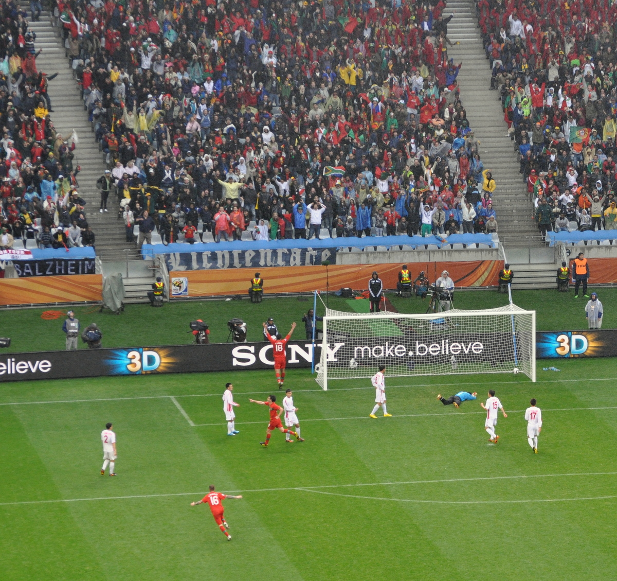 Portugal scores in the game between Portugal and North Korea at FIFA World Cup 2010, 21 June 2010, Green Point Stadium, Cape Town